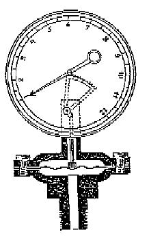 Man